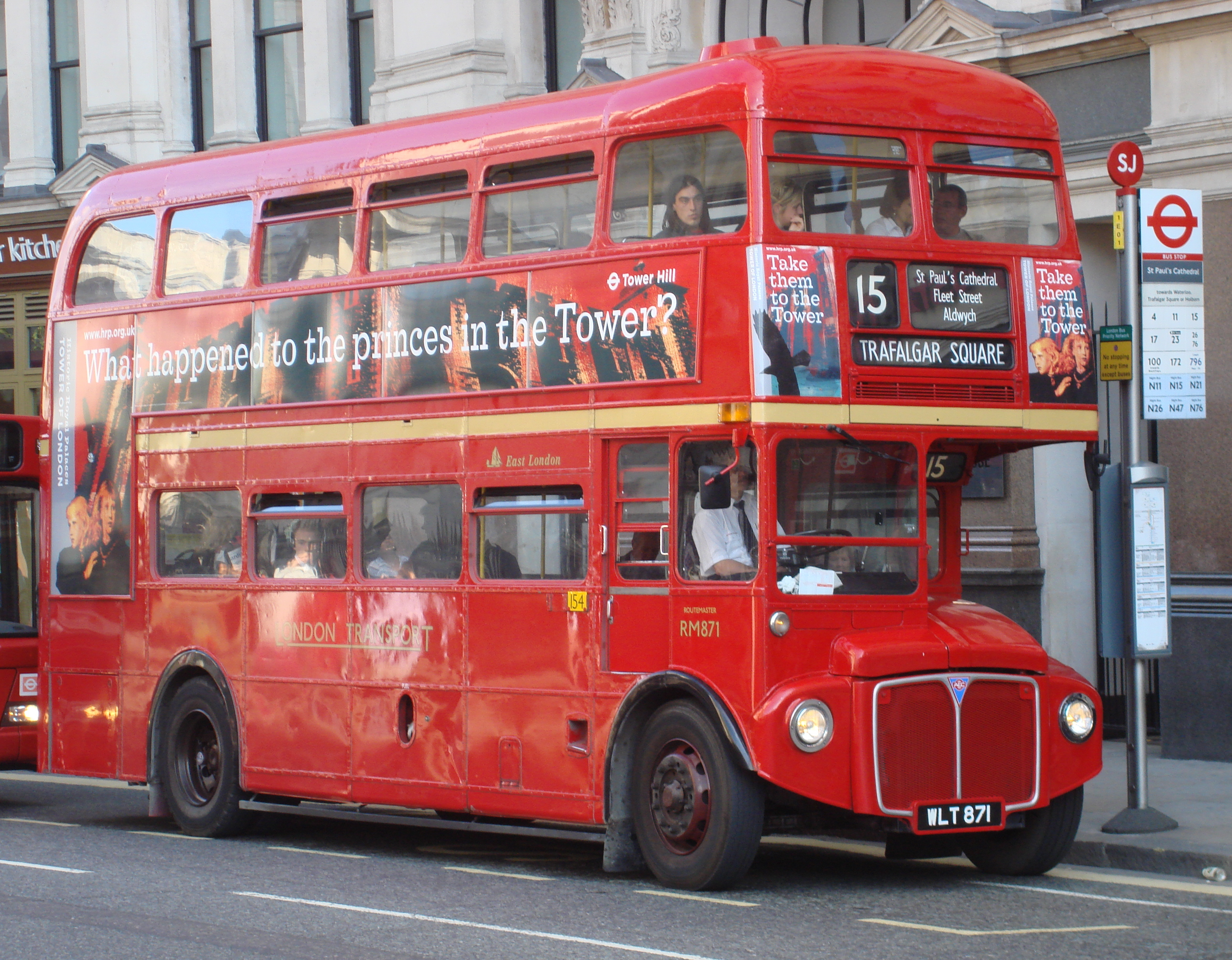 East London Routemaster bus RM871 (reg. WLT 871), operating London Buses heritage route 15, pictured loading at bus stop SJ St Paul's Cathedral (south west corner), heading west along St. Paul's Church Yard, en-route to Trafalgar Square.